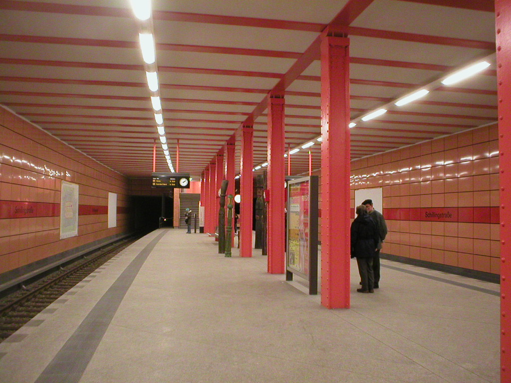 Berlin U-Bahn station Schillingstraße, line U5